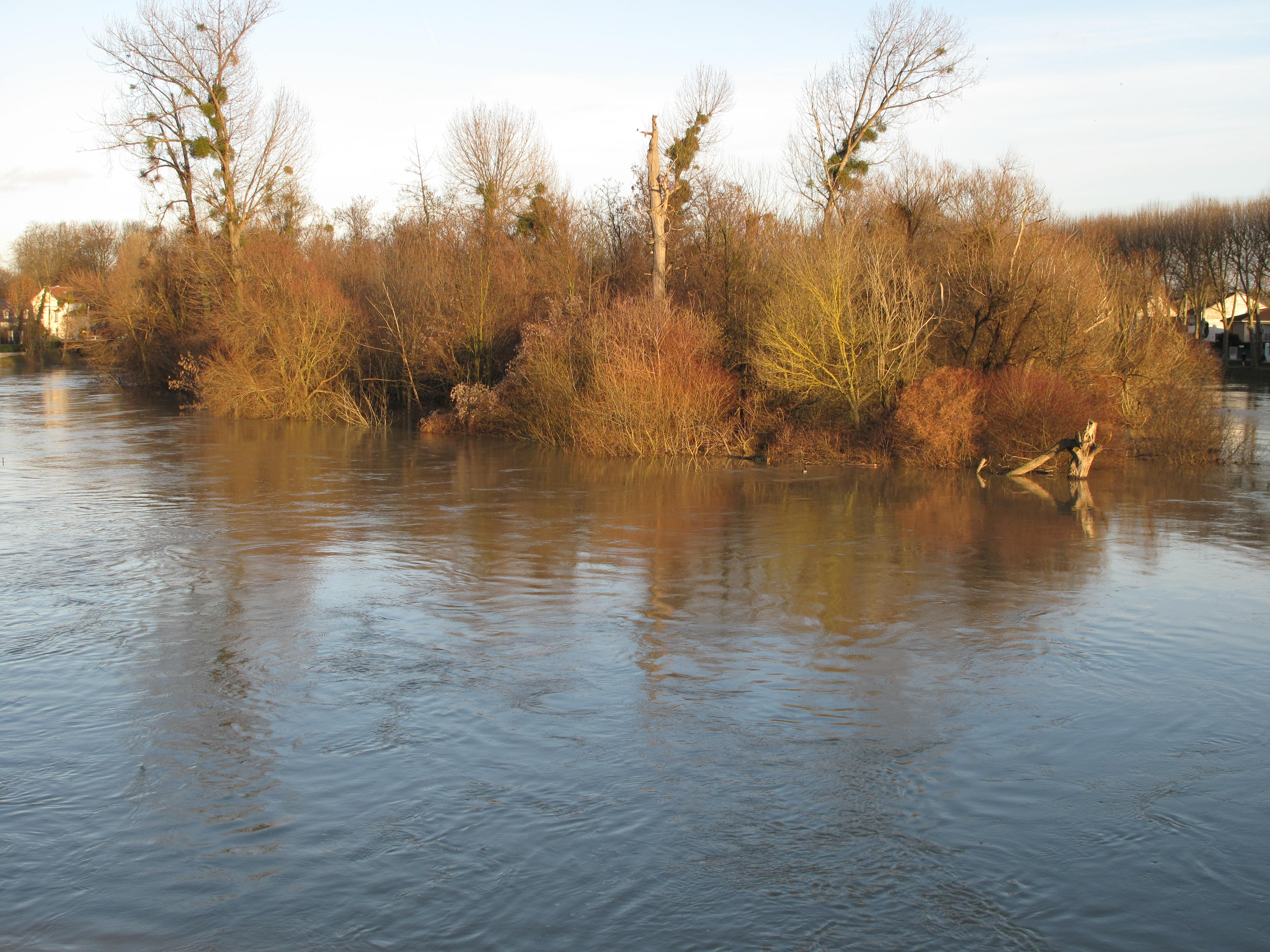 Île Refuge, on the Marne river, at Chelles (Seine-et-Marne, France) in winter.